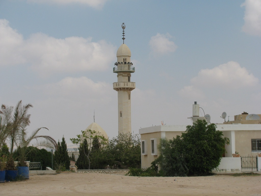 Mosque in the heart of Segev Shalom Community